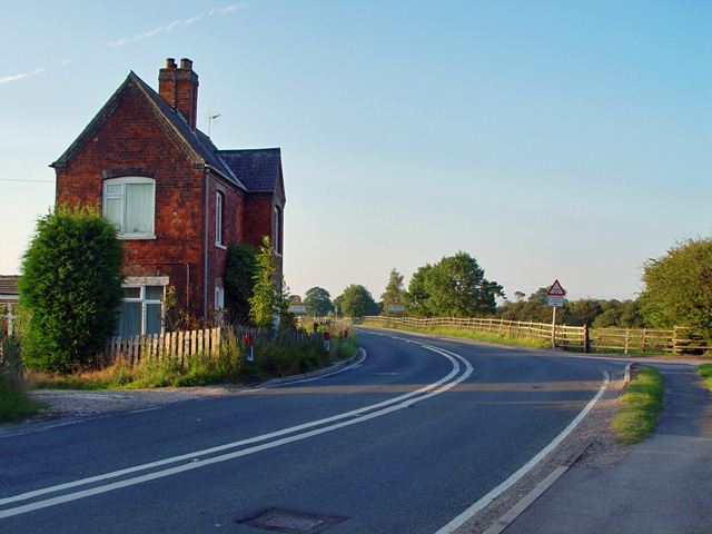 Walkington Gate House, Beverley, East Riding of Yorkshire, England.The gatehouse stands on the southern limit of Beverley Westwood, the road running towards and past the photographer to Walkington.